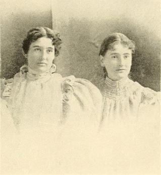 Laura and Margaret Shoup